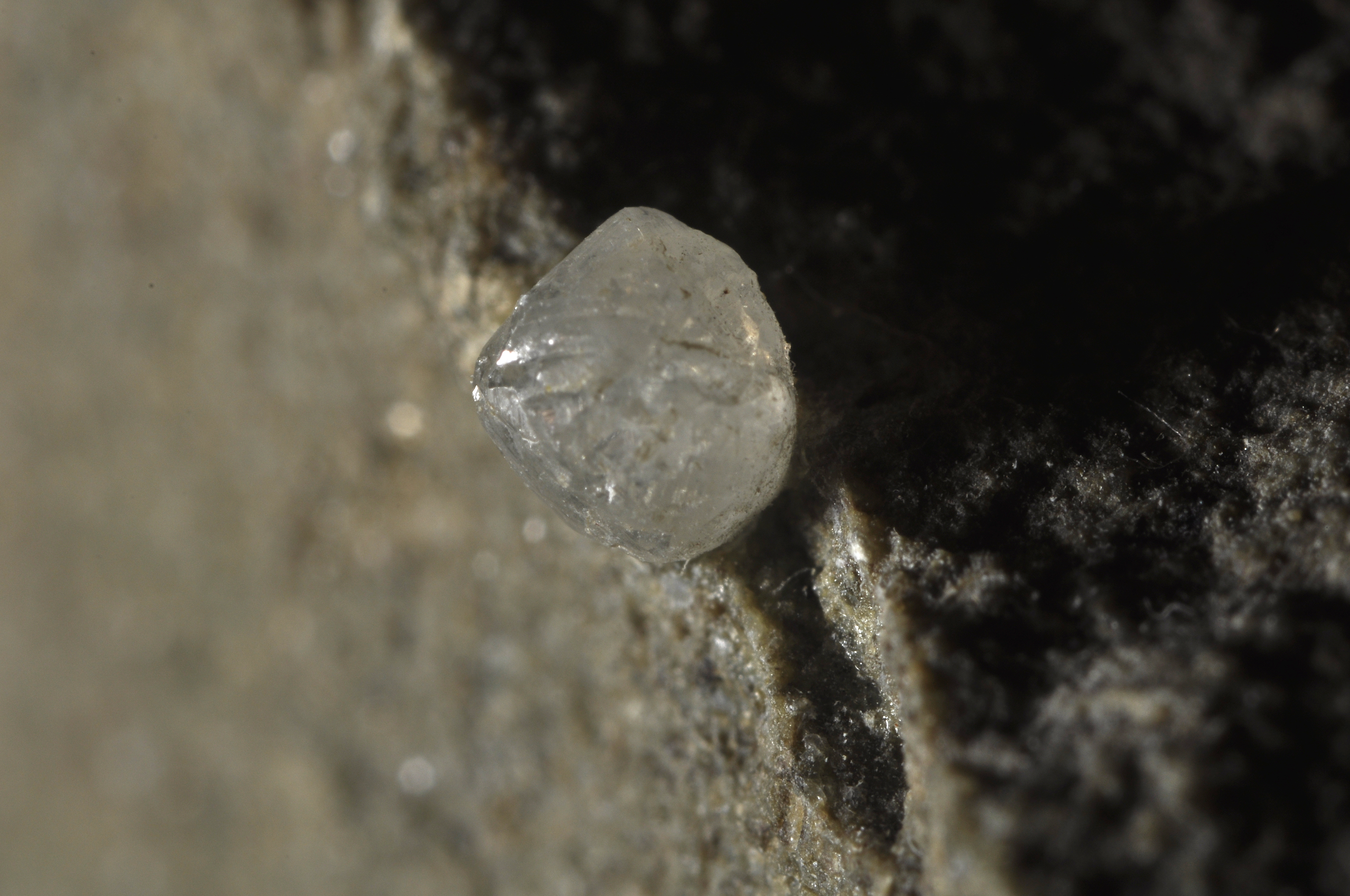 Crystal of white diamond on kimberlite